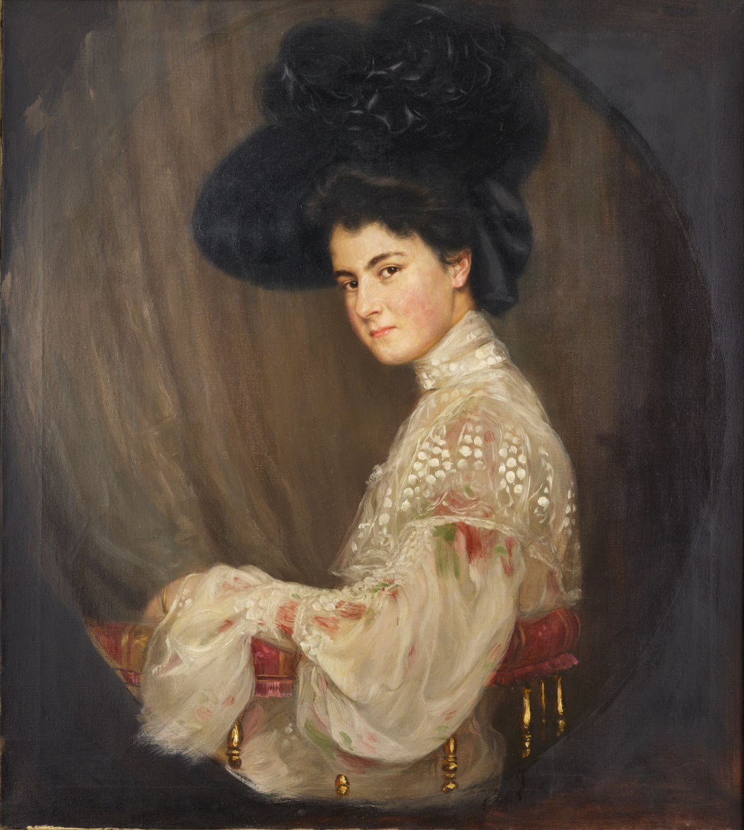 Caroline Großherzogin von geb. Prinzessin zu Reuß (1884-1905)